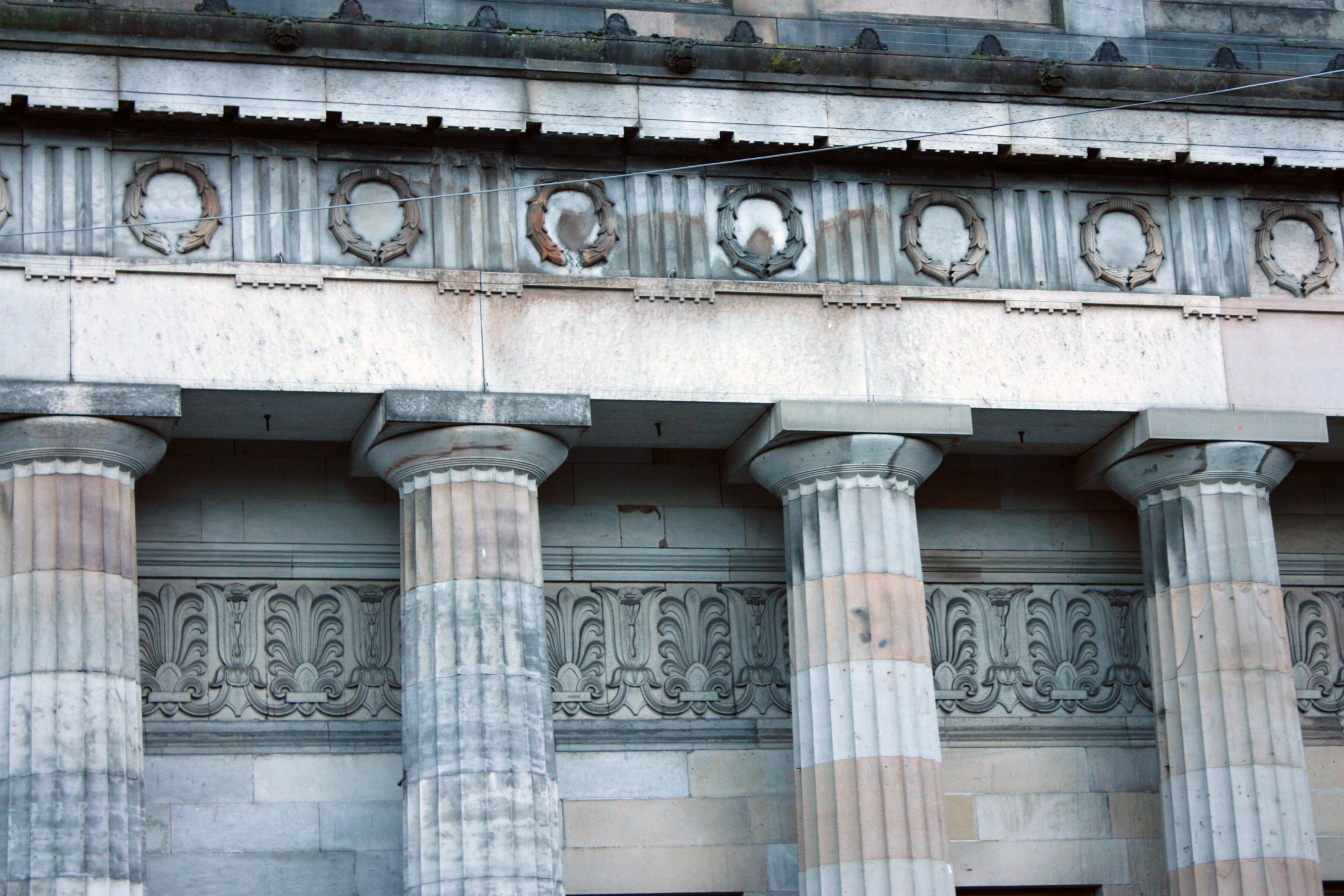 Stone detailing on RSA Edinburgh facing the Mound